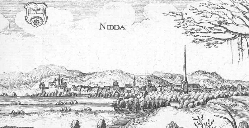 This is a scan of the historical document: Title: Nidda - Topographia Hassiae language: german